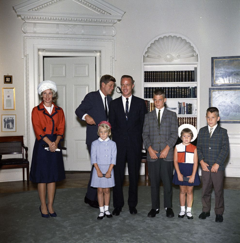 KN-C22147 Visit of Astronaut Lt. Cmdr. Scott Carpenter and his family to the White House.